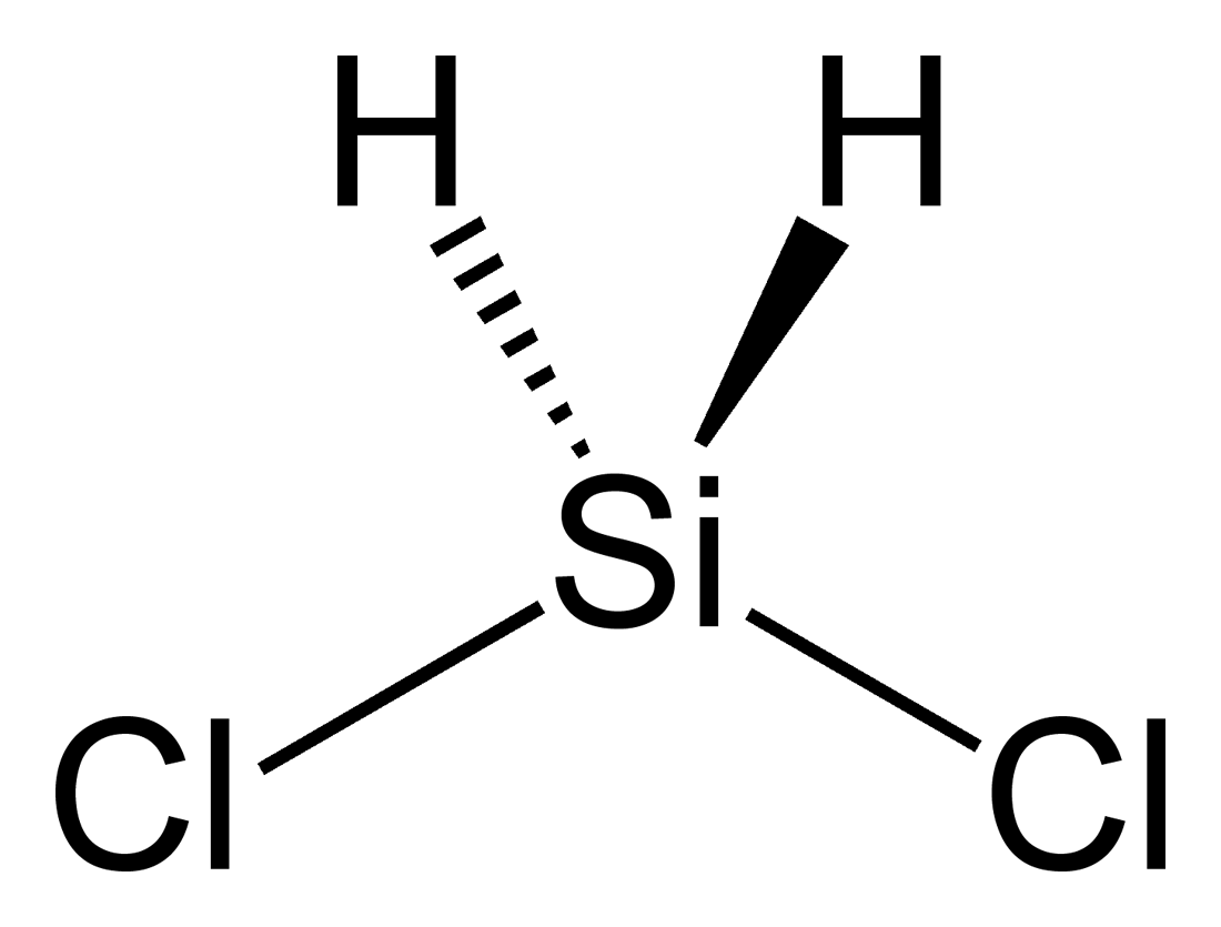 Two-dimensional stereochemical representation of the achiral dichlorosilane molecule, SiH2Cl2